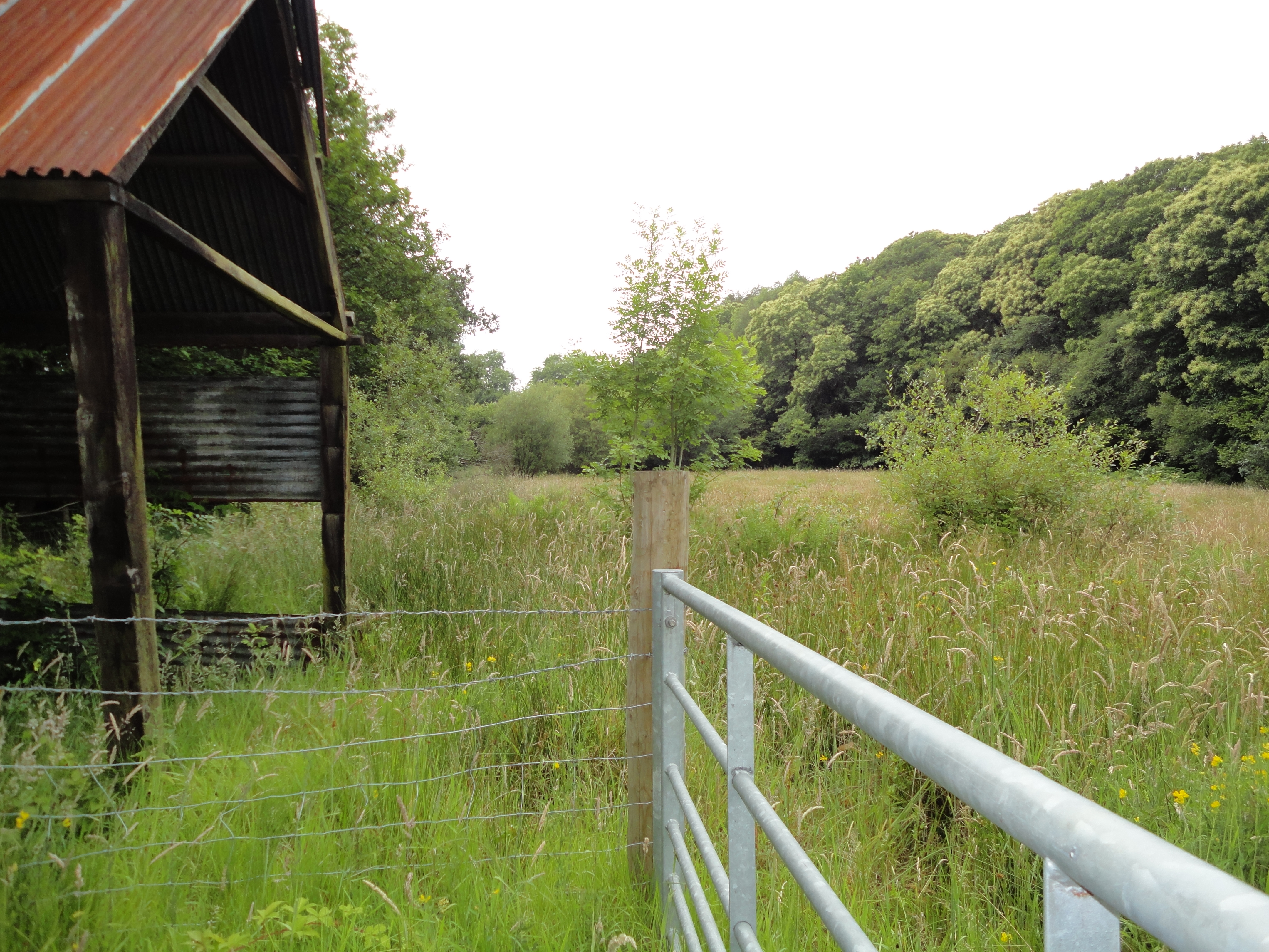 Bryngarw Country Park, Rhos Pasture